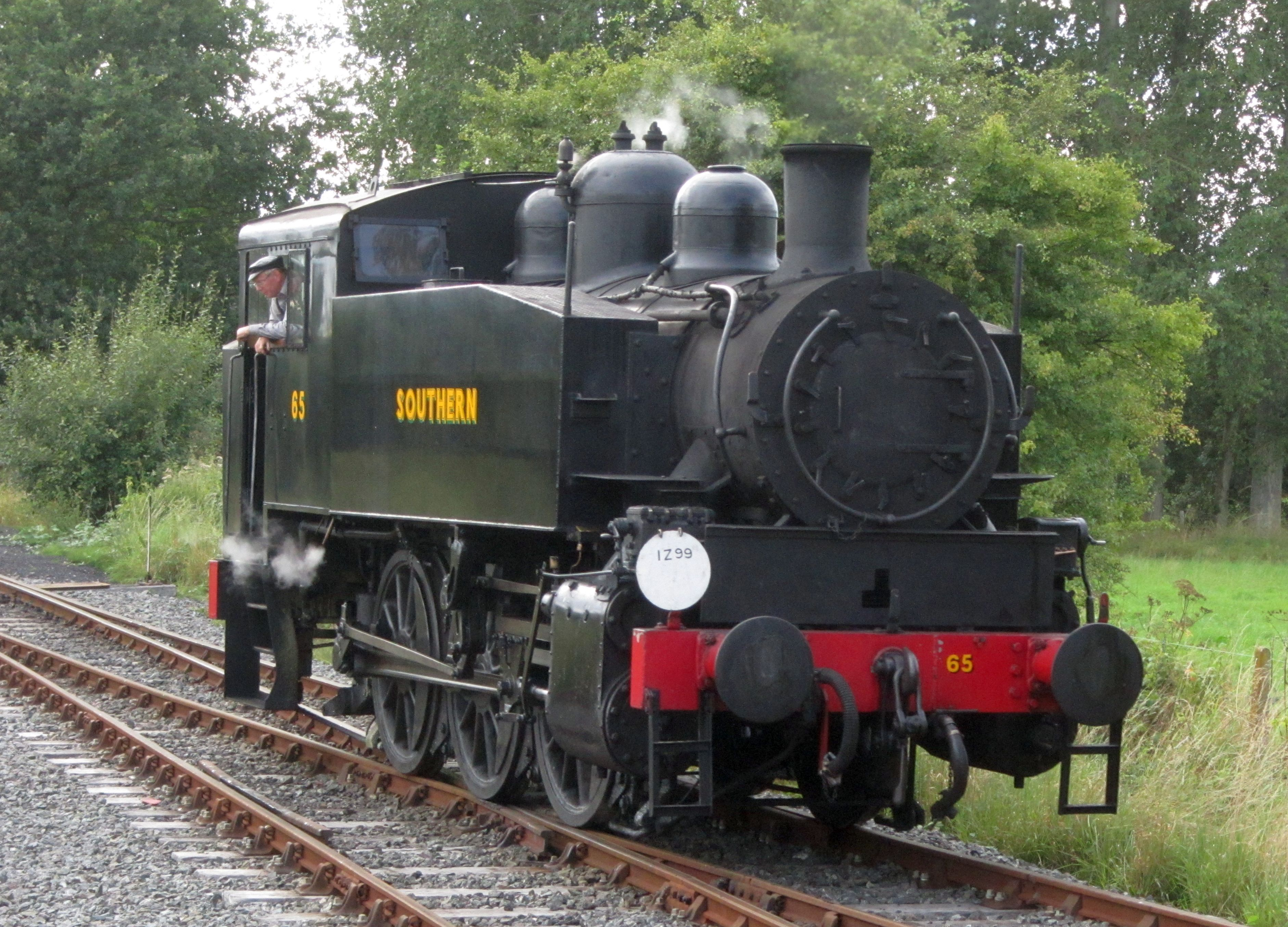 S100 №1968 0-6-0T, later №62 "Southern", eventually №22 "Maunsell" of Kent and East Sussex Railway.